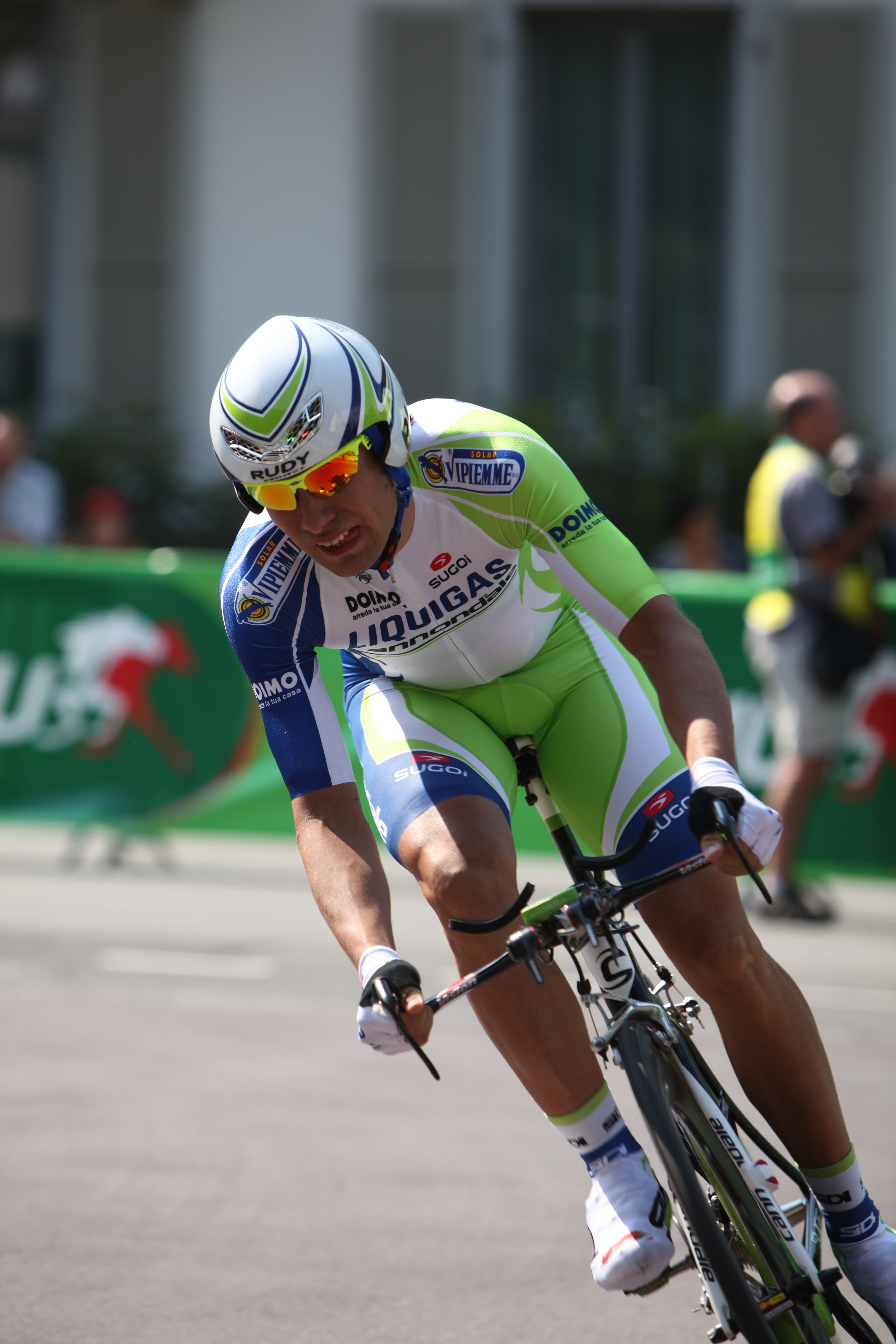 Simoni Ponzi at the prologue of the Tour de Romandie 2011